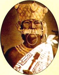 Portrait of TISQUESUSA, an indean ruler of muisca.